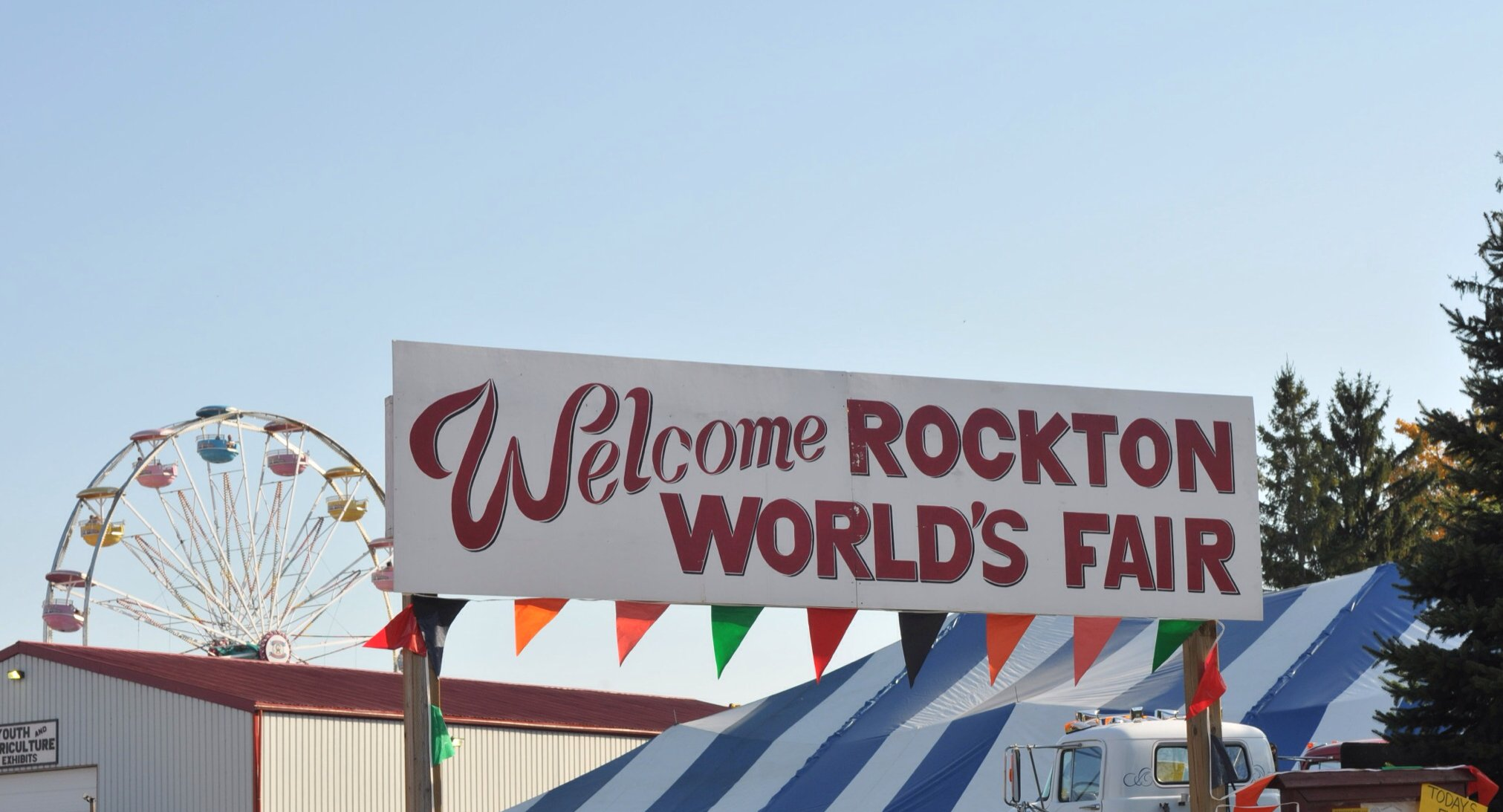 The Rockton World's Fair, Rockton, Ontario, Canada.